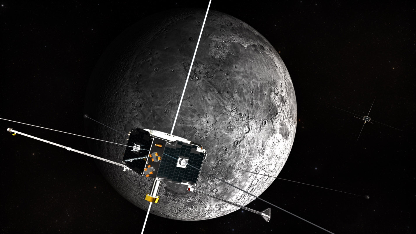 ARTEMIS consists of a pair of Earth science missions that were sent on a new mission to study the Earth-Moon Lagrange points for the first time.